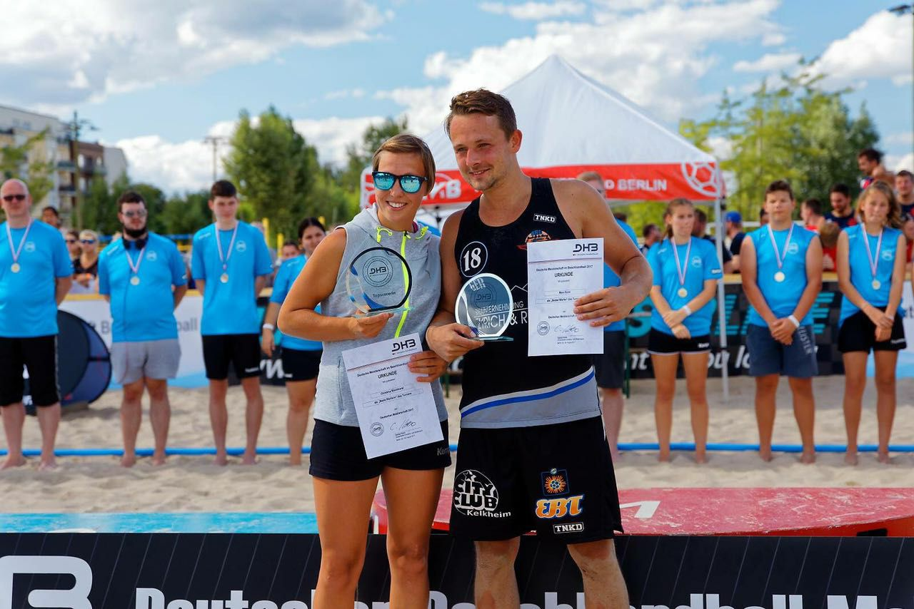 MVP German Beach Open